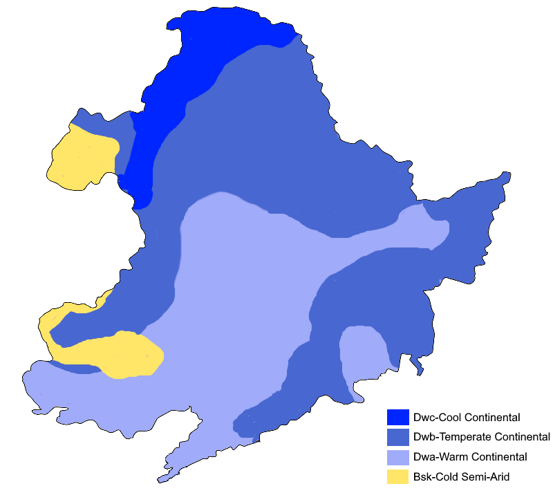 Climate Classification map of Manchuria/Northeast China. Base from